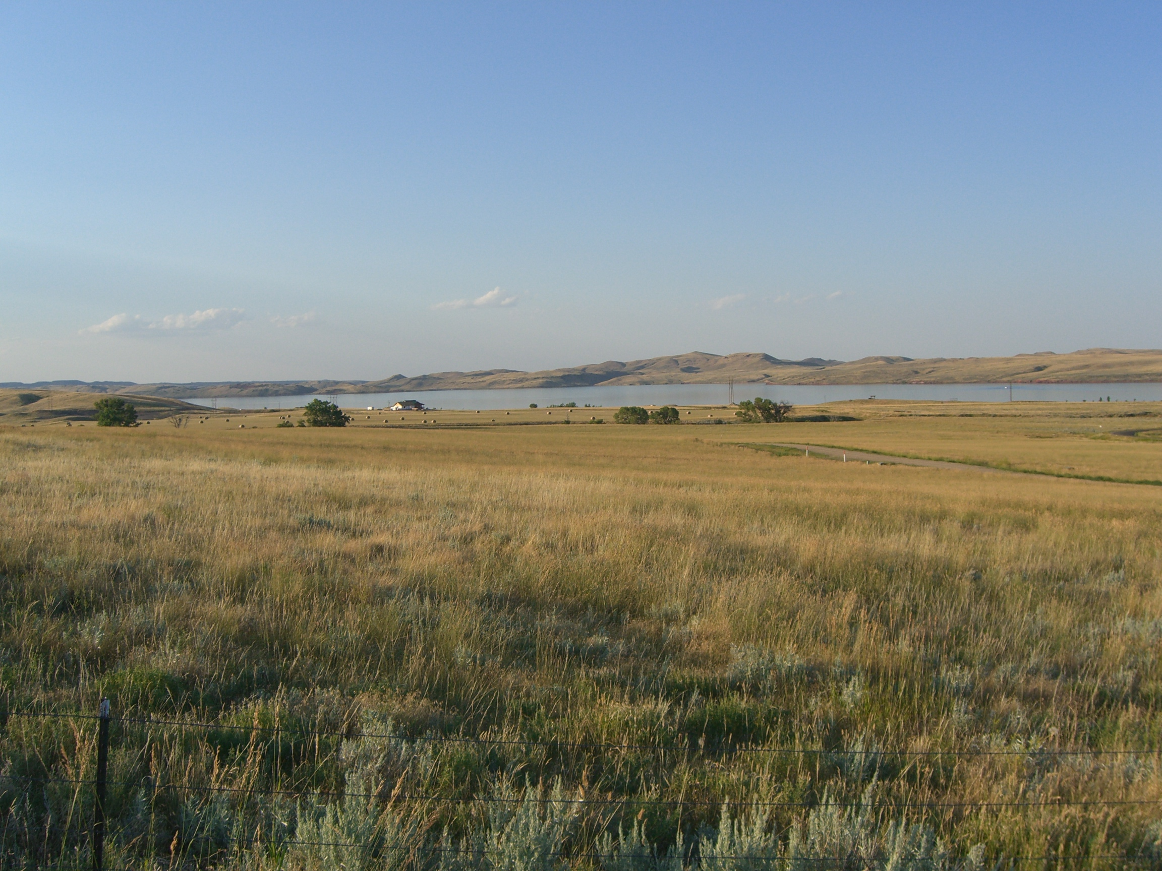 Lake DeSmet, Wyoming